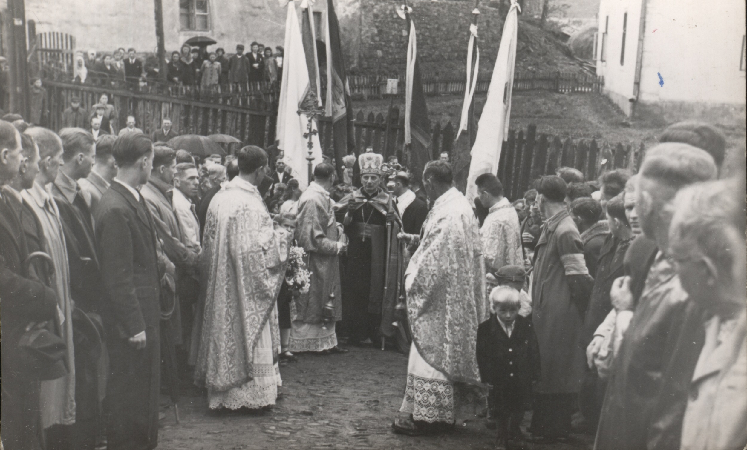 Dr. Malinowski, Lemko Apostolic Administrator. SS Galizien recruits waiting for head of district, Sanok. 1943